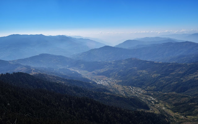 View from top of Kalo Veer